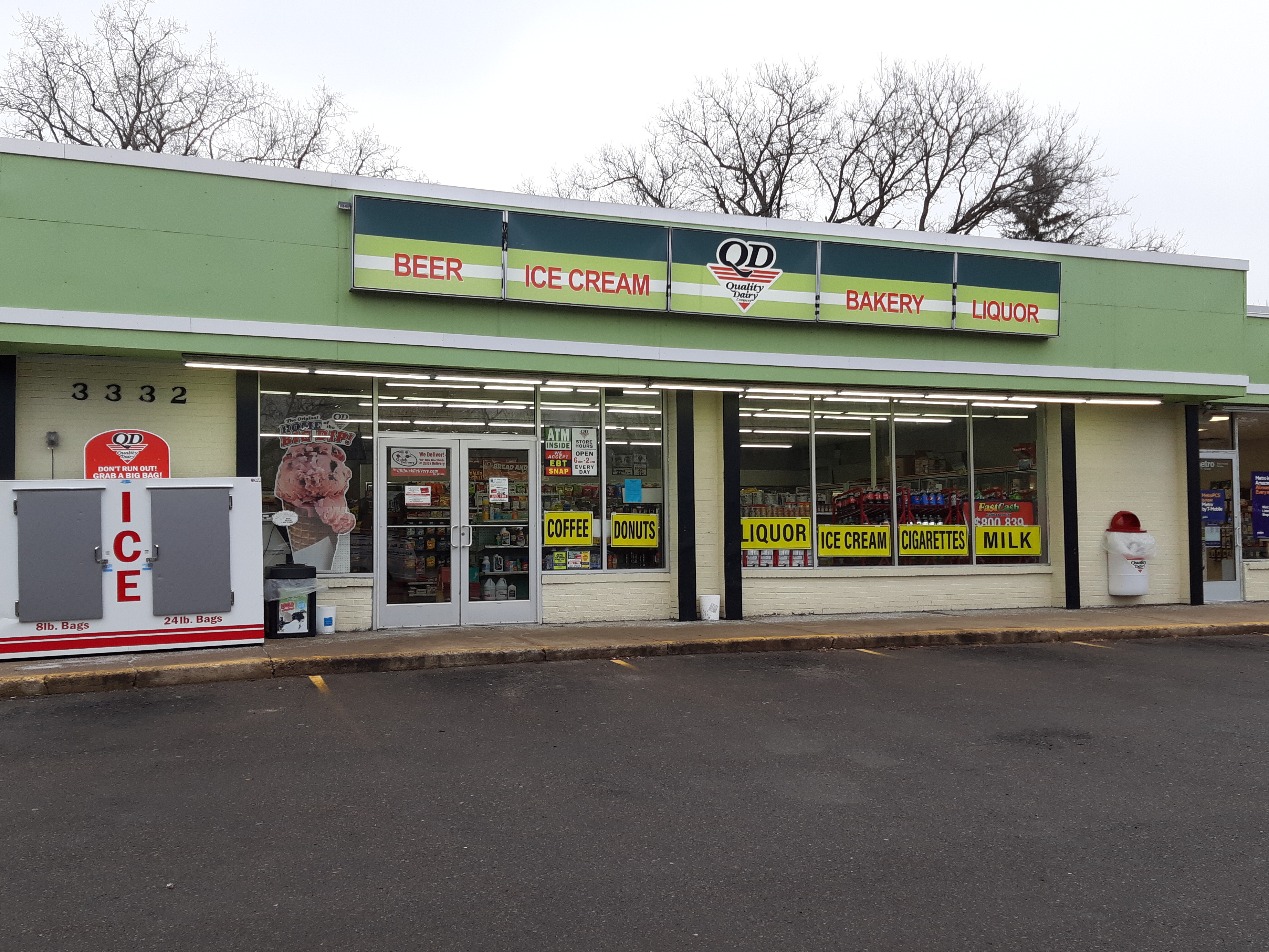 Front Entrance of Quality Dairy-Whitehills